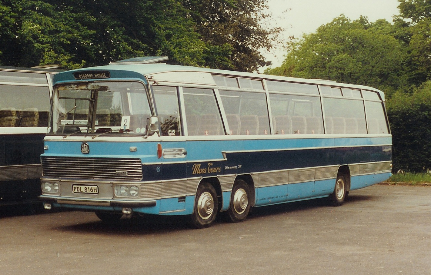 Bedford VAL70 with Duple Viceroy C53F bodywork registration number PDL 816H new to Moss, Sandown in April 1970 seen Osbourne House, Isle of Wight - 31 May 1983.